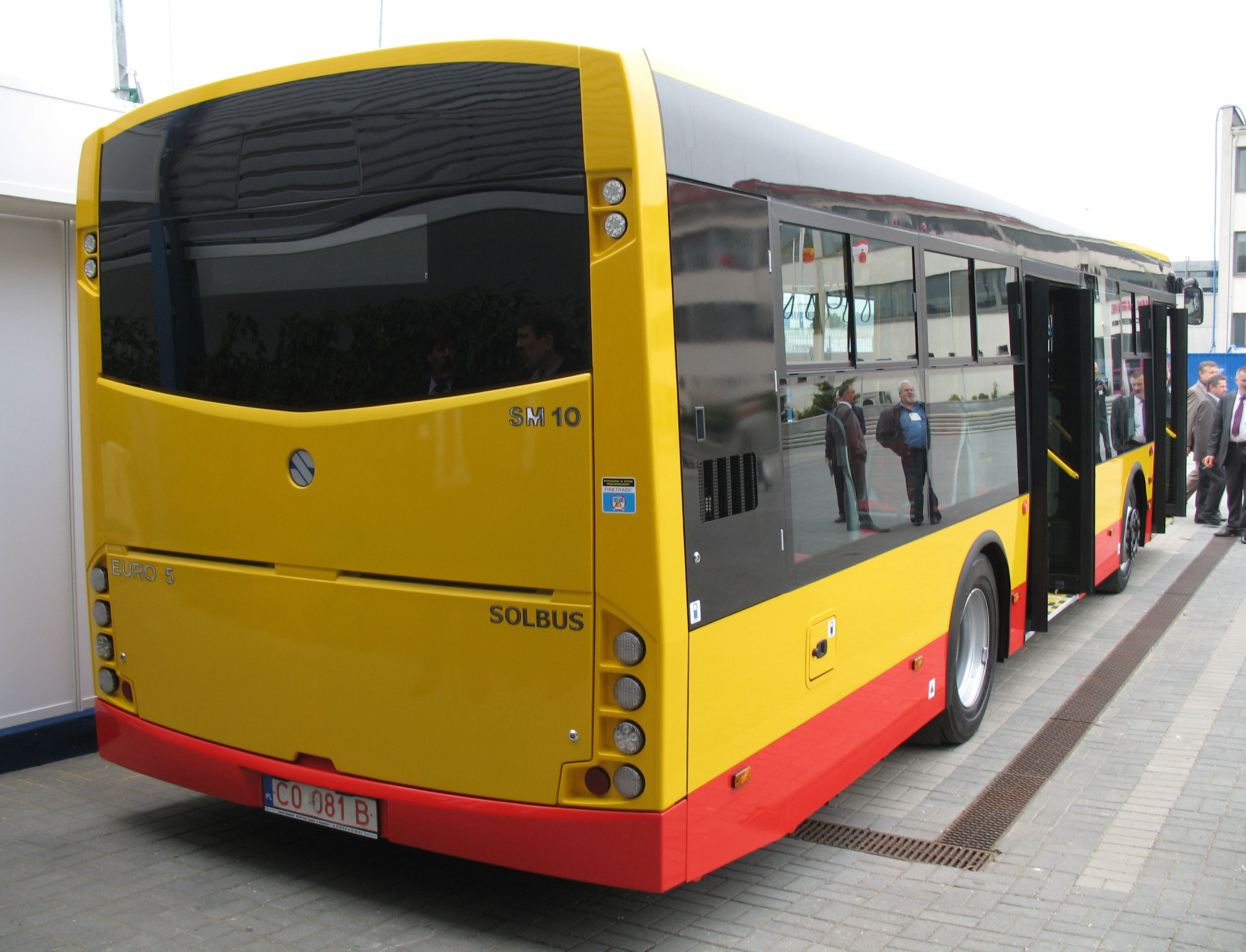 Solbus Solcity 10 bus in Kielce, Poland. Built 2011, MZA Warszawa operator.